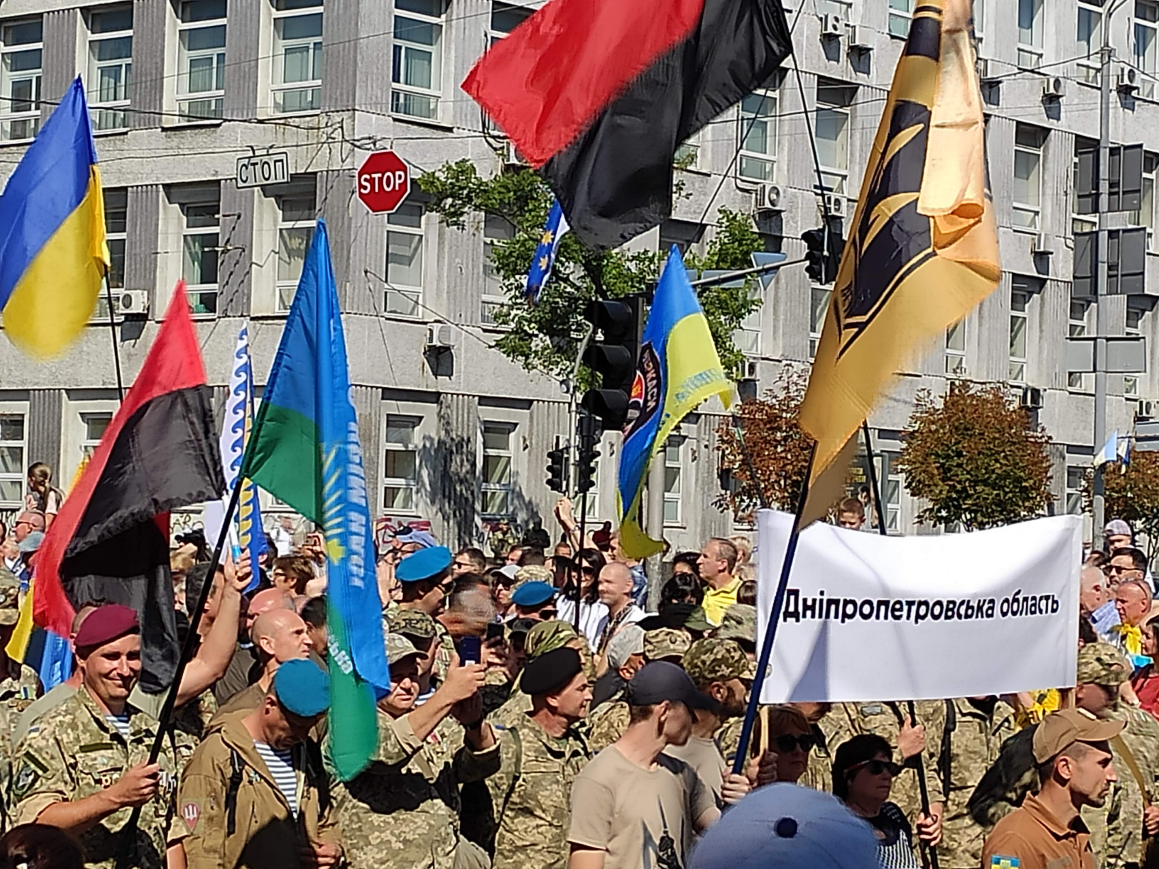 Veterans of the Russian-Ukrainian war from the Dnipropetrovsk region